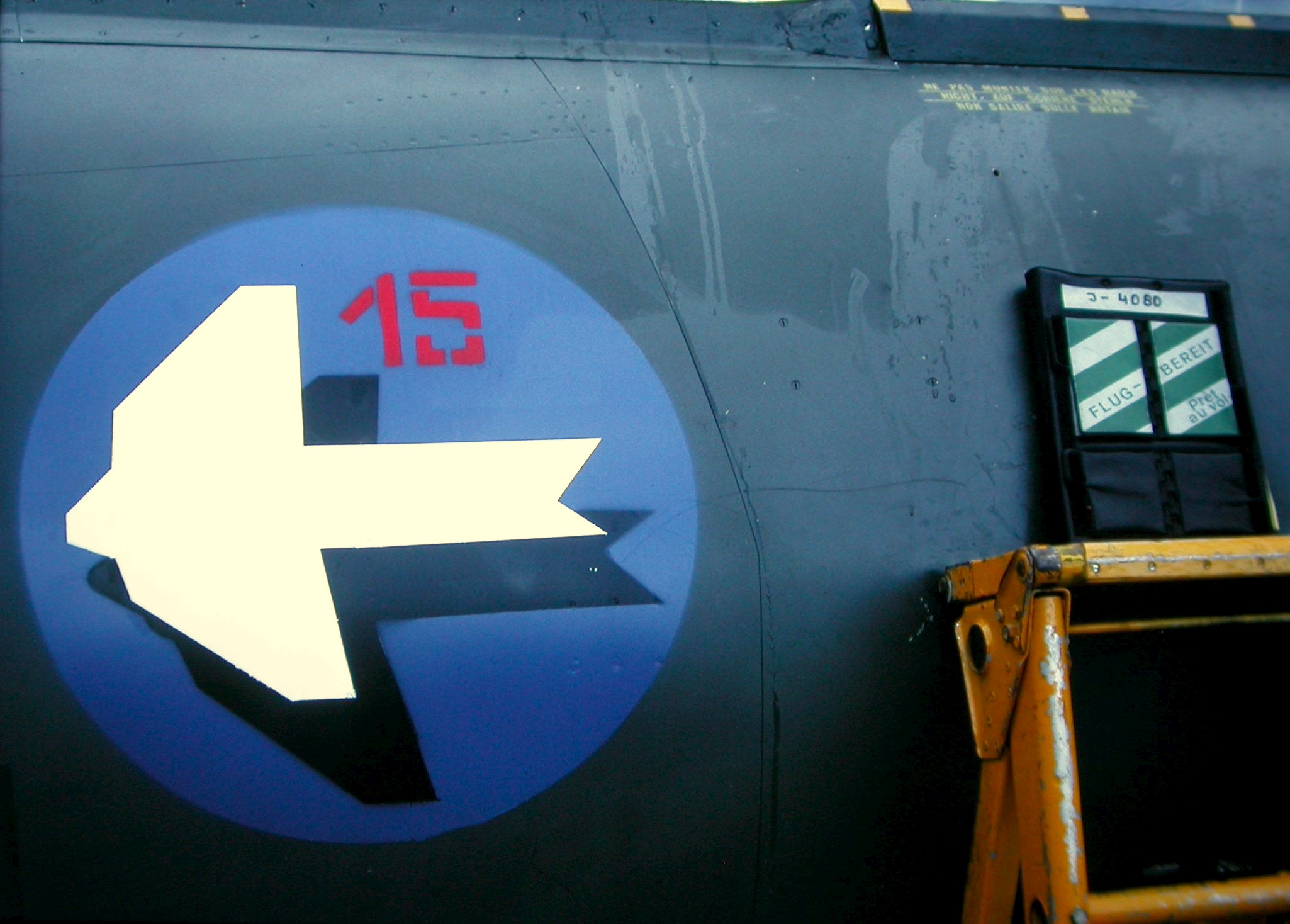 Swiss Air Force Squadron 15 Emblem